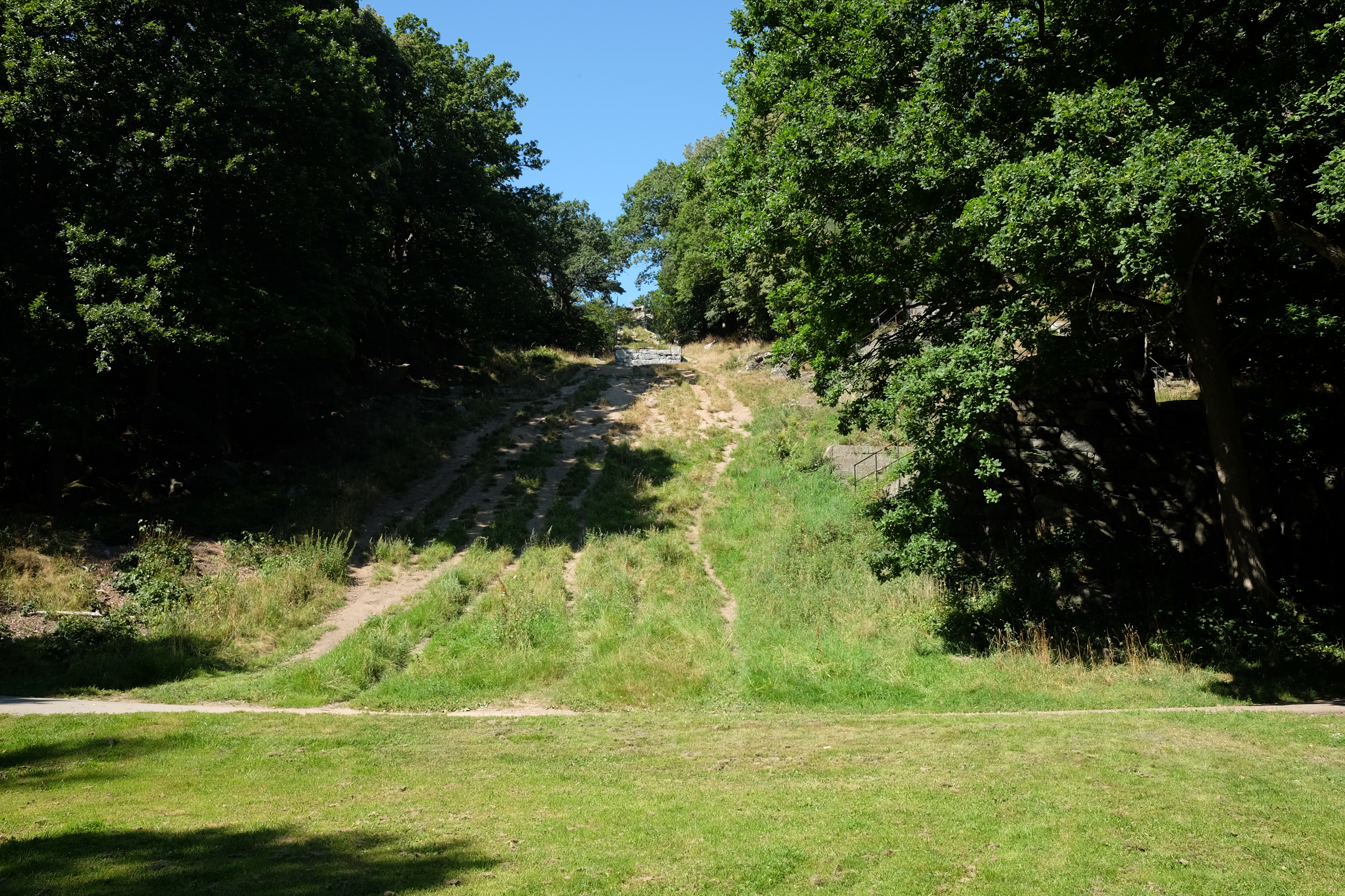 Bragebacken, a former ski jumping hill in Slottskogen in Göteborg.